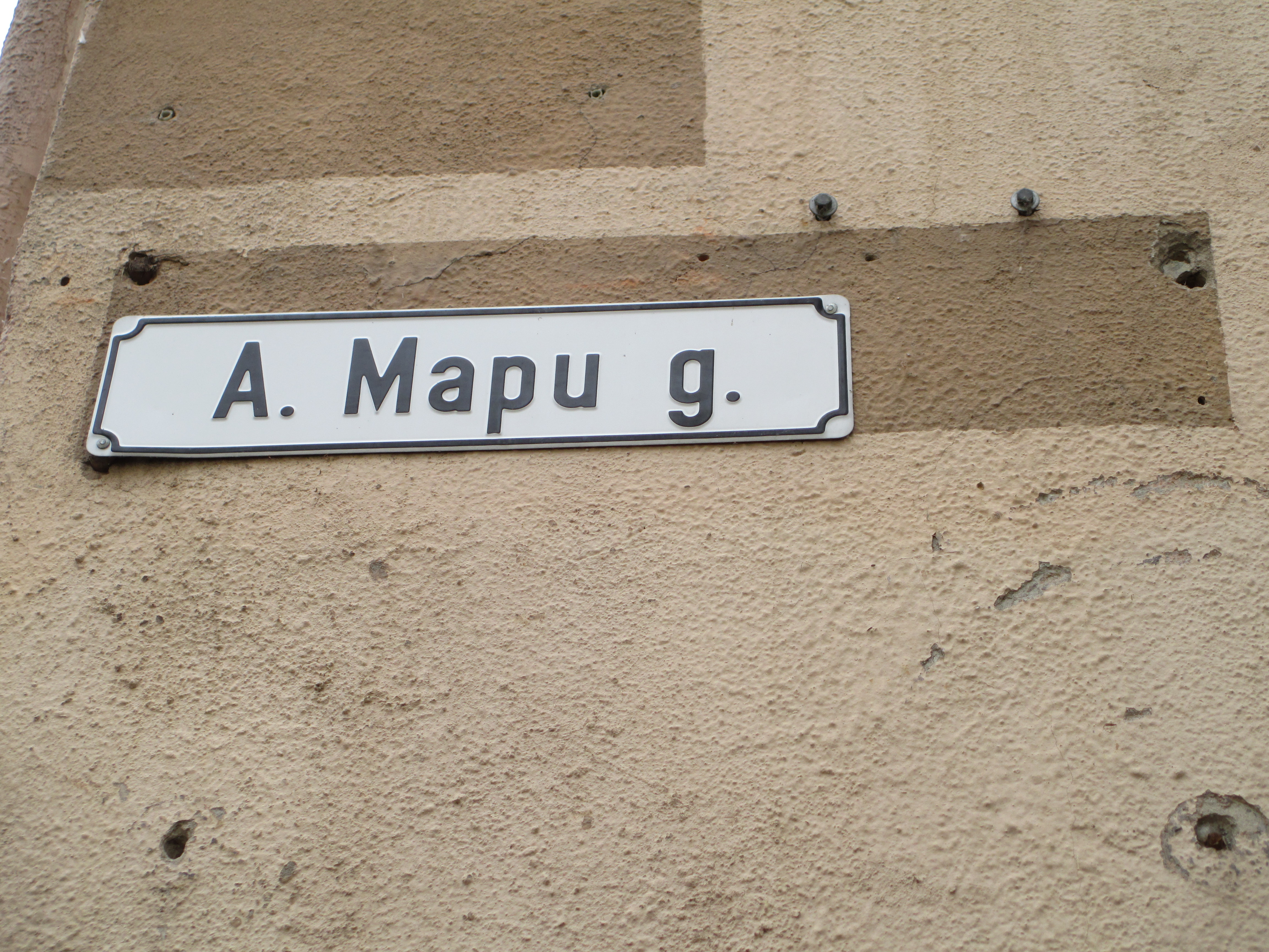 abraham mapu (jewish writer) str. in kaunas